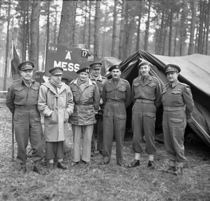 FIELD MARSHAL MONTGOMERY VISITS CANADIAN TROOPS IN THE KLEVE - GOCH SECTOR, GERMANY, FEBRUARY 1945 - Left to right: Major General C Vokes (4th Armoured Division), General H D C Crerar (Army Commander), Field Marshal Sir Bernard L Montgomery, Lieutenant General B G Horrocks (30 British Corps, Attached Canadian Army), Lieutenant General G C Simonds (2 Corps), Major General D C Spry (3rd Infantry Division), and Major General A B Mathews (2 Division).